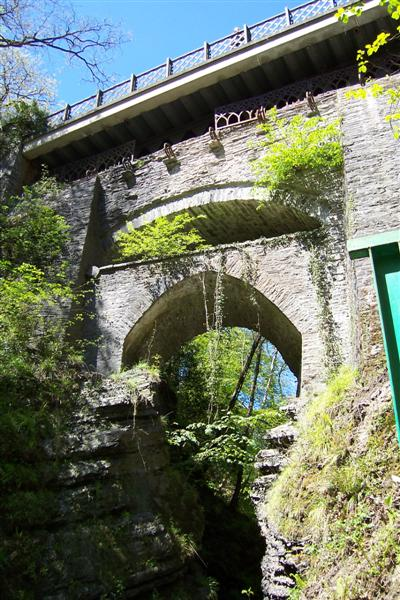 The three stacked bridges at Devil's Bridge. Local folklore says the lowest was constructed by the Devil.